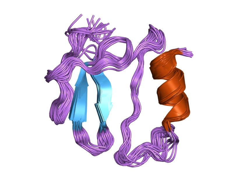 Cartoon representation of the molecular structure of protein registered with 1l3h code.